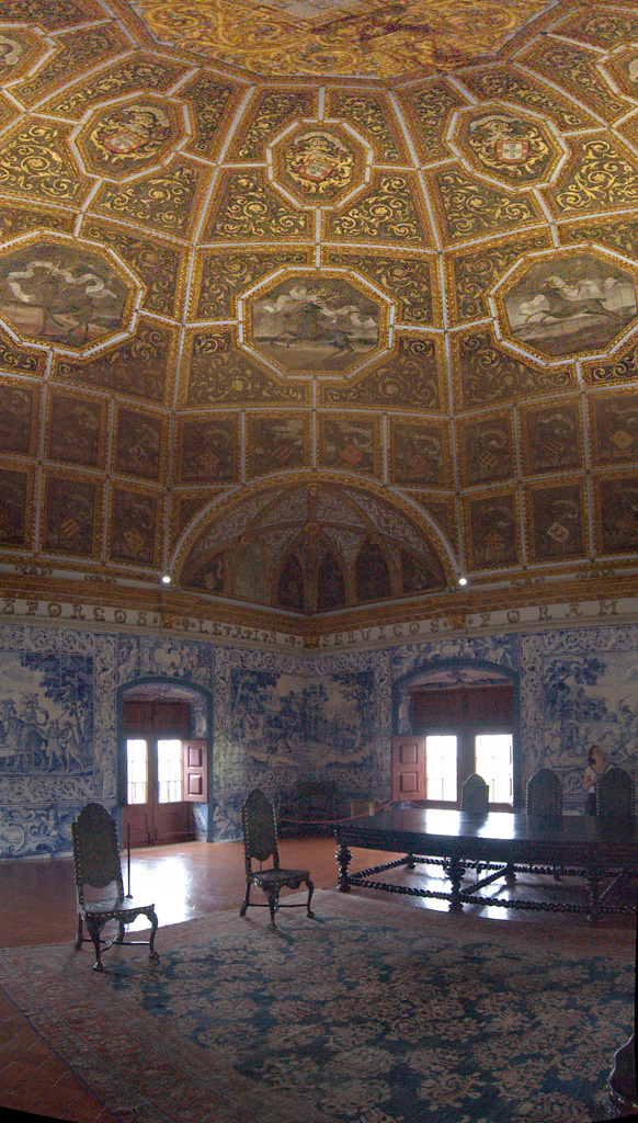 Sala dos Brasoes of the National Palace of Sintra